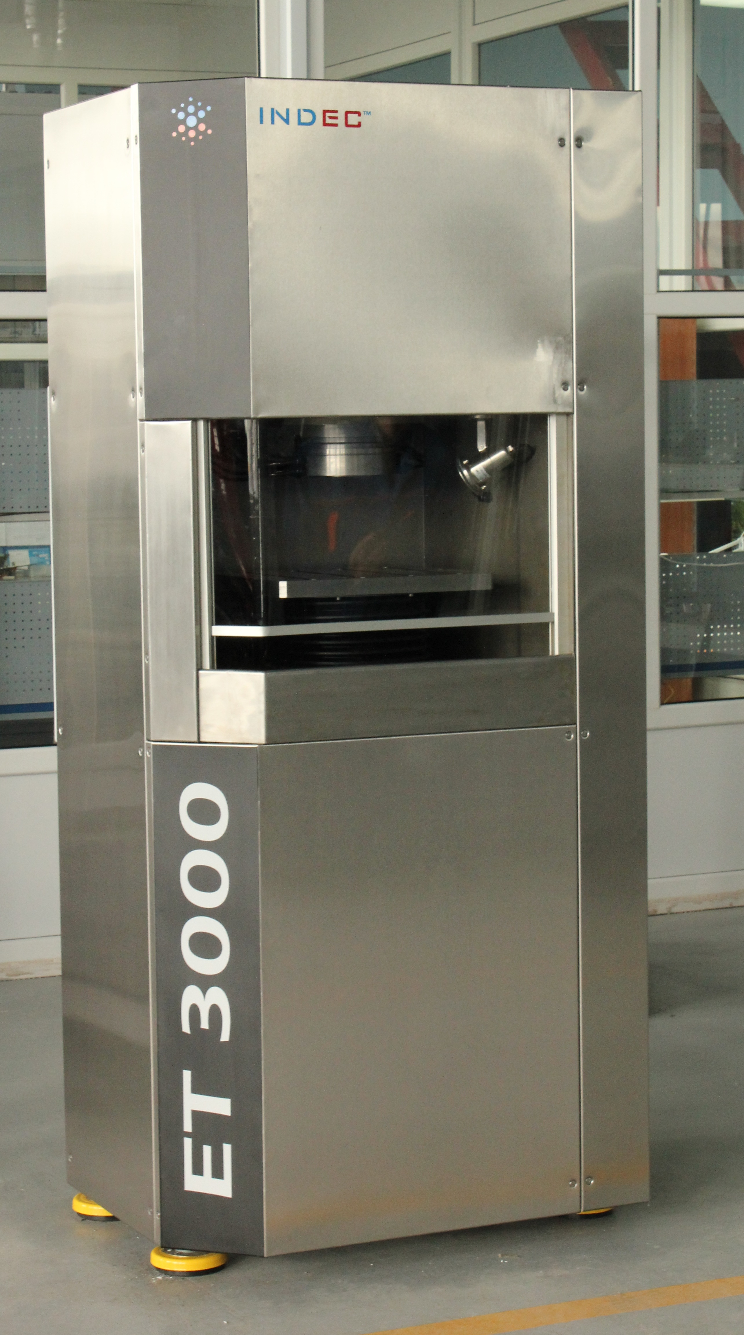 ET 3000